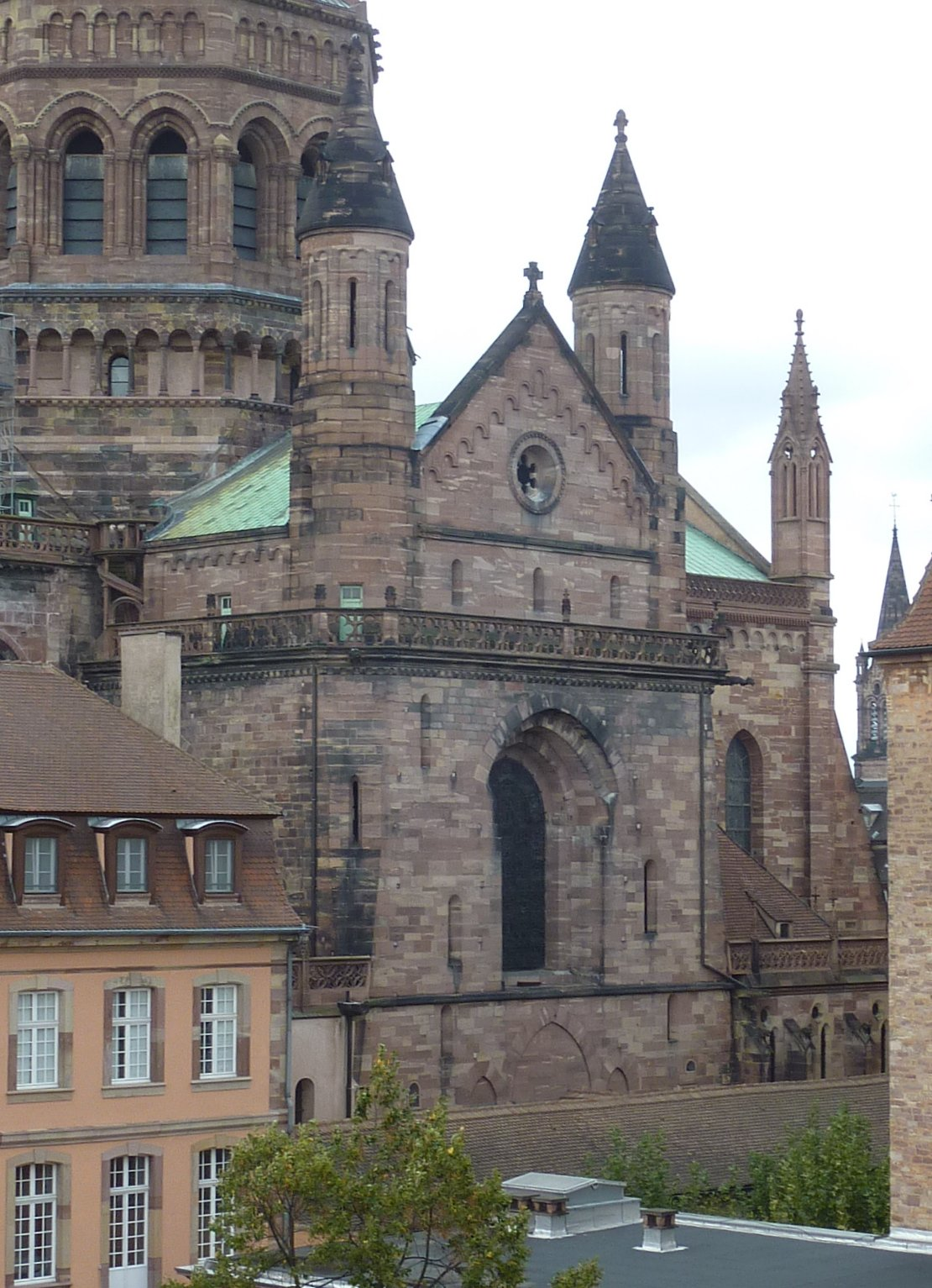 Romanesque chevet of Strasbourg Cathedral